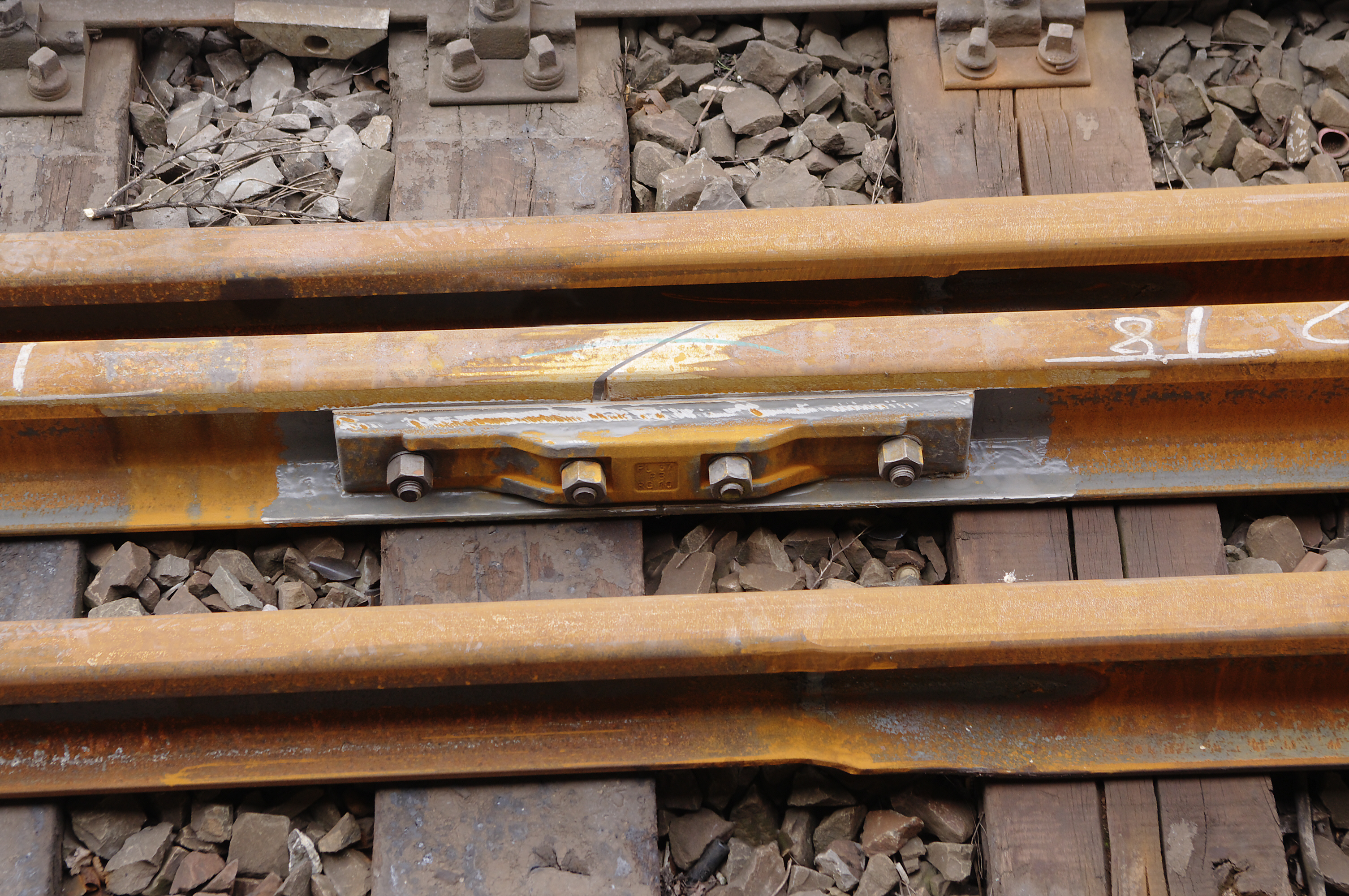 Insulated rail joint